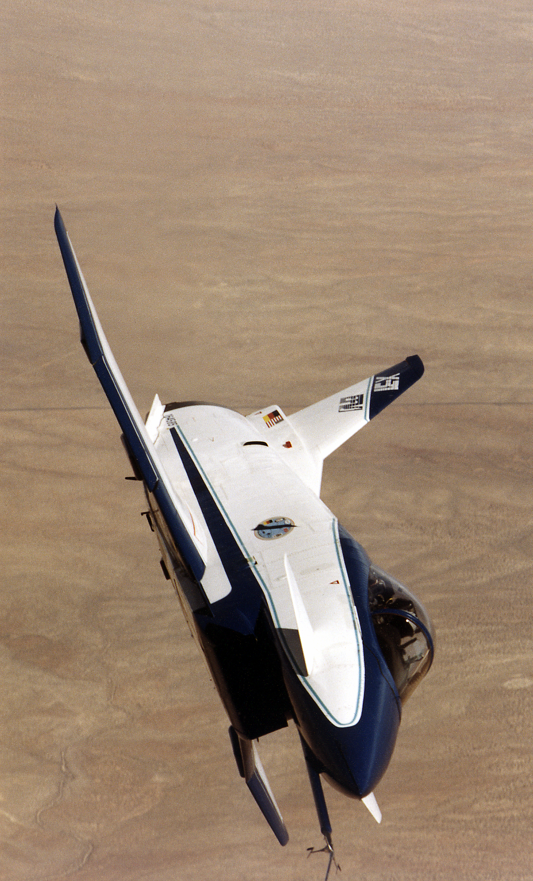 One of two X-31 Enhanced Fighter Maneuverability Demonstrator aircraft, flown by an international test organization at NASA's Dryden Flight Research Center, Edwards, California, turns tightly over the desert floor on a research flight. The aircraft obtained data that may apply to the design and development of highly-maneuverable aircraft of the future. The X-31 had a three-axis thrust-vectoring system, coupled with advanced flight controls, to allow it to maneuver tightly at very high angles of attack.